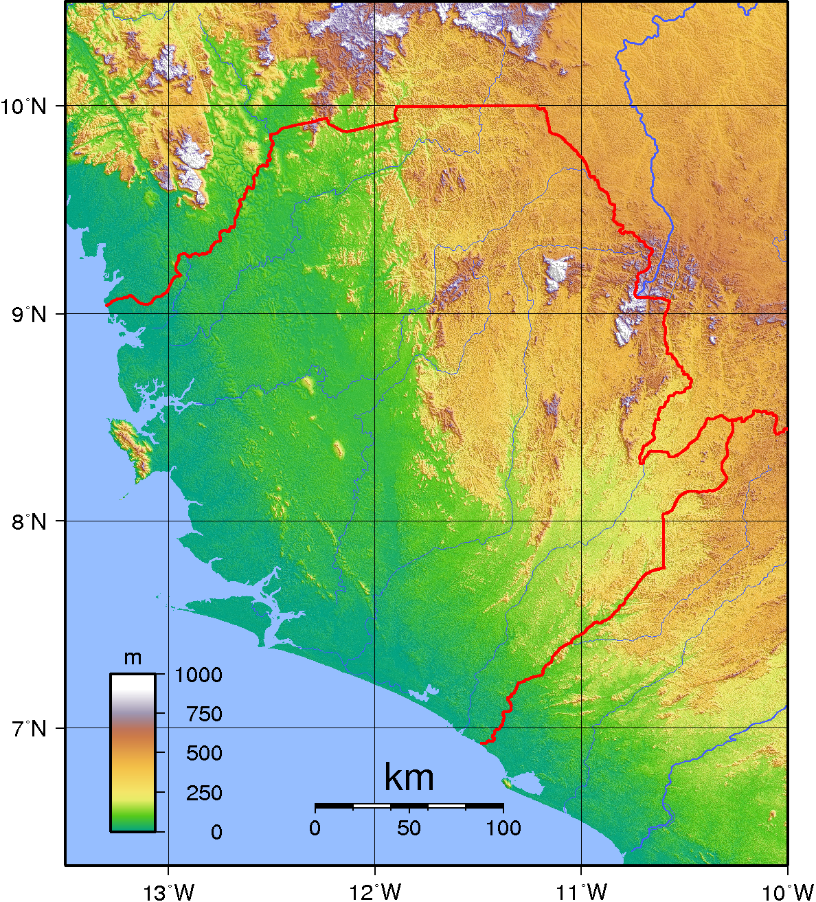 Topographic map of Sierra Leone. Created with GMT from public domain SRTM data.